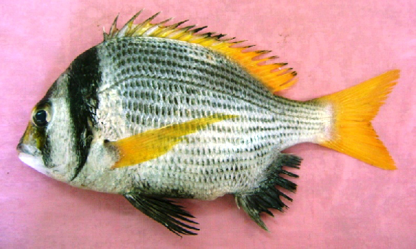 Acanthopagrus bifasciatus collected in Karachi, Pakistan.